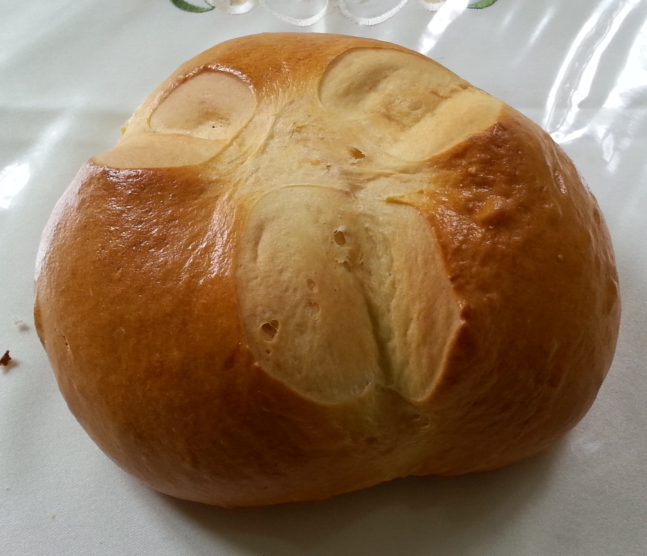 A home-baked Osterpinze. A traditional bread for eastern in parts of Austria